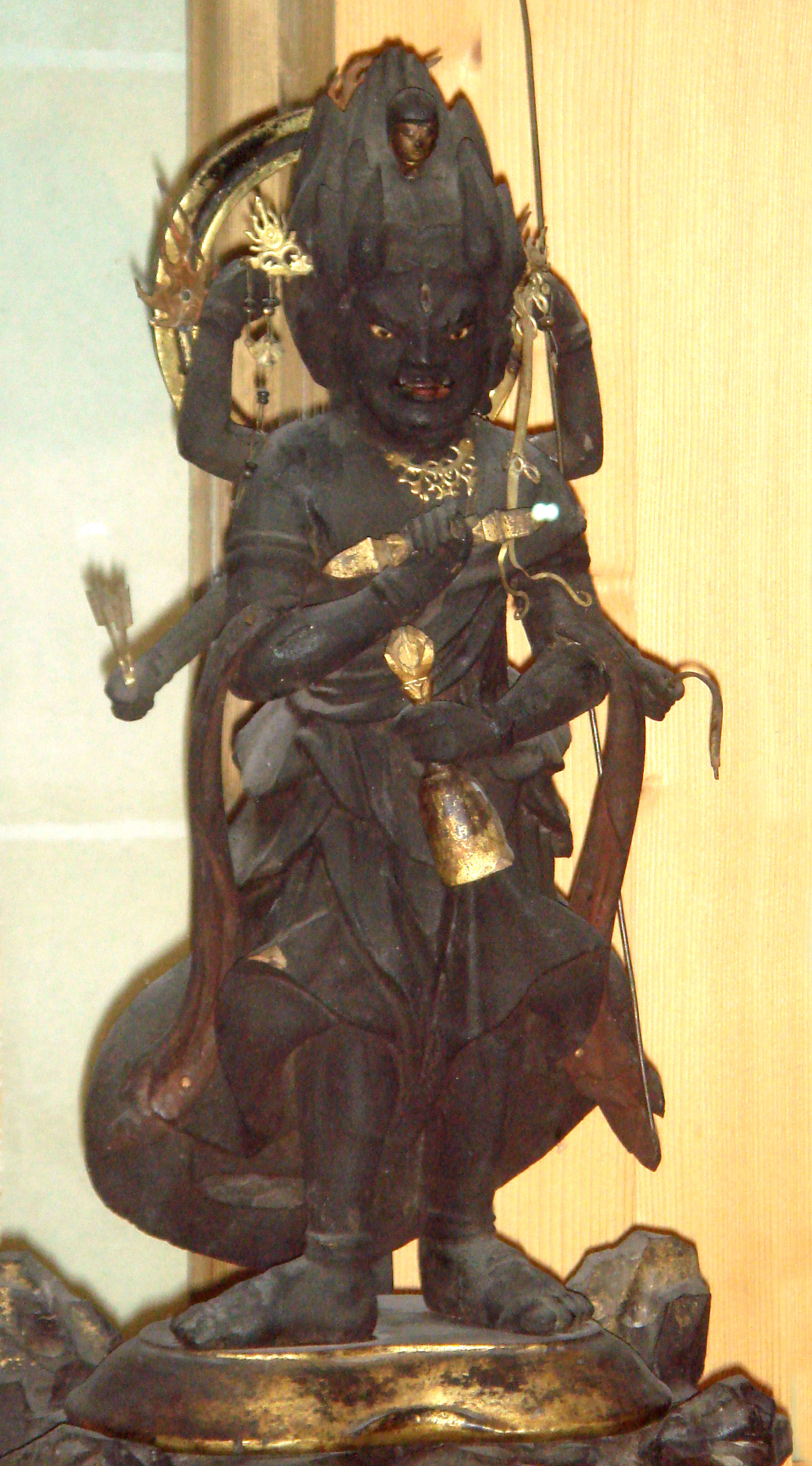 Sambou_Koujin_Fire_Divinity